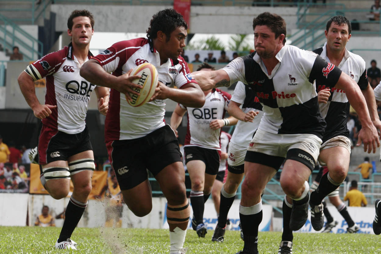 North Harbour vs Natal Duikers. 2008 Cobra Tens